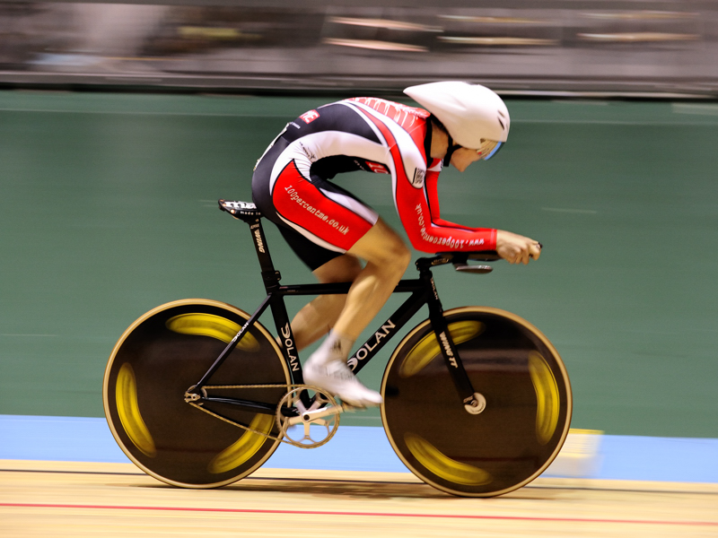 British National Championships 2008 Manchester Velodrome Steven Burke adds UK Championship to his Olympic Bronze 2008